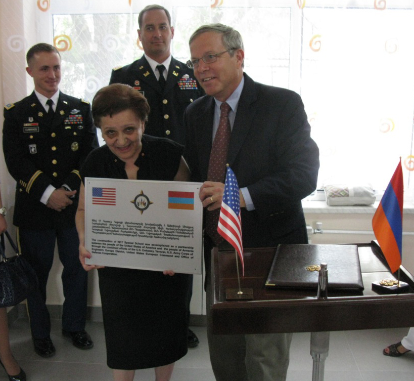 U.S. Army Corps of Engineers Europe District officials joined U.S. Ambassador to Armenia John Heffern and Office of Defense Cooperation representatives at a ribbon-cutting ceremony Sept. 2 in Yerevan for Special School #17. The school, which offers education and rehabilitation services, is the only government facility in Armenia for children with severe mobility problems. Half of its 110 students reside at the school. The two-story masonry building needed major repairs to the roof, cafeteria, kitchen, lavatories, bedrooms, heating and air-ventilation systems, water supply, sewage and electricity system. The main entrance and corridors also got an overhaul. The $326,285 renovation project began last September and was completed a month ahead of schedule. Others attending the ceremony included Special School #17 Director Amalya Harutyunyan; Capt. Aaron Isaacson of the ODC; and Gwendolyn Nelson, project engineer for Europe District’s Caucasus Project Office. (U.S. Army Corps of Engineers courtesy photo)